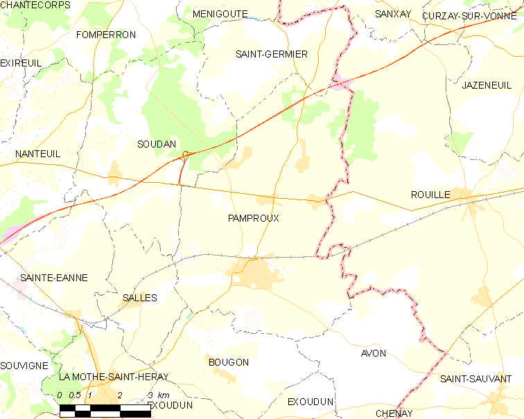 Map of French municipality Pamproux